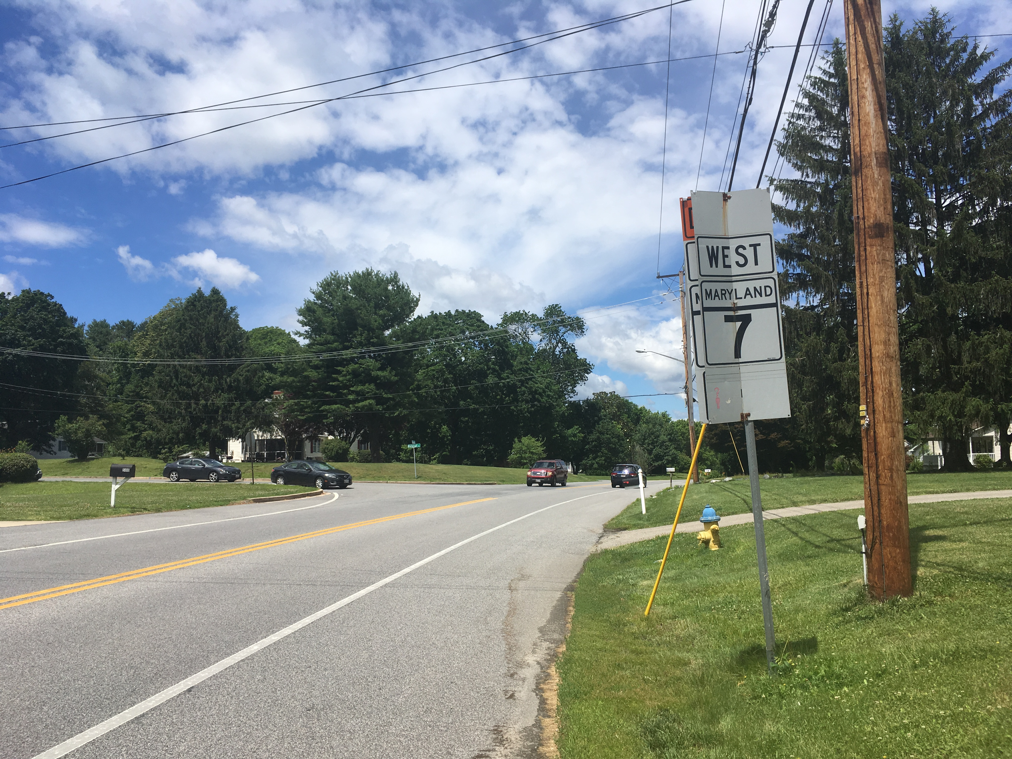 Westbound Maryland Route 7 (Delaware Avenue) at the intersection with White Hall Road in Elkton, Maryland